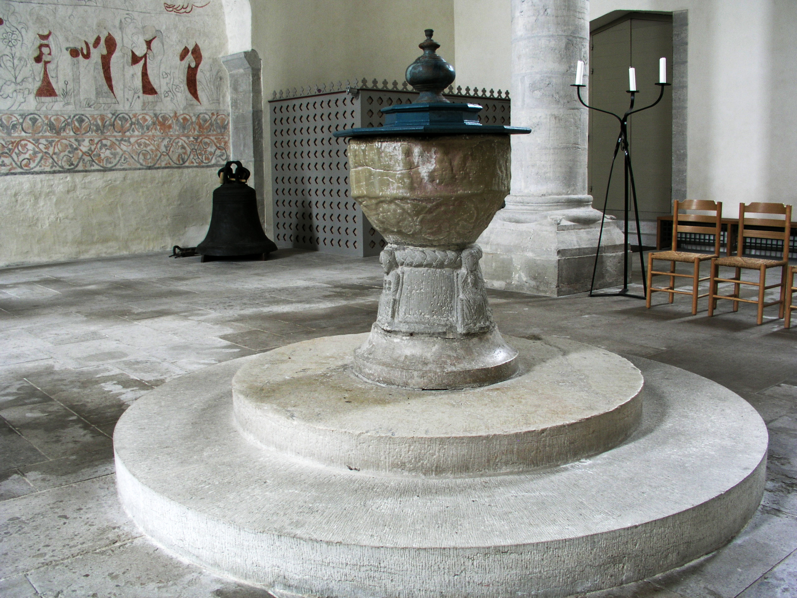 Lau kyrka / Lau church, Diocese of Visby, Gotland, Sweden. Baptismal font.